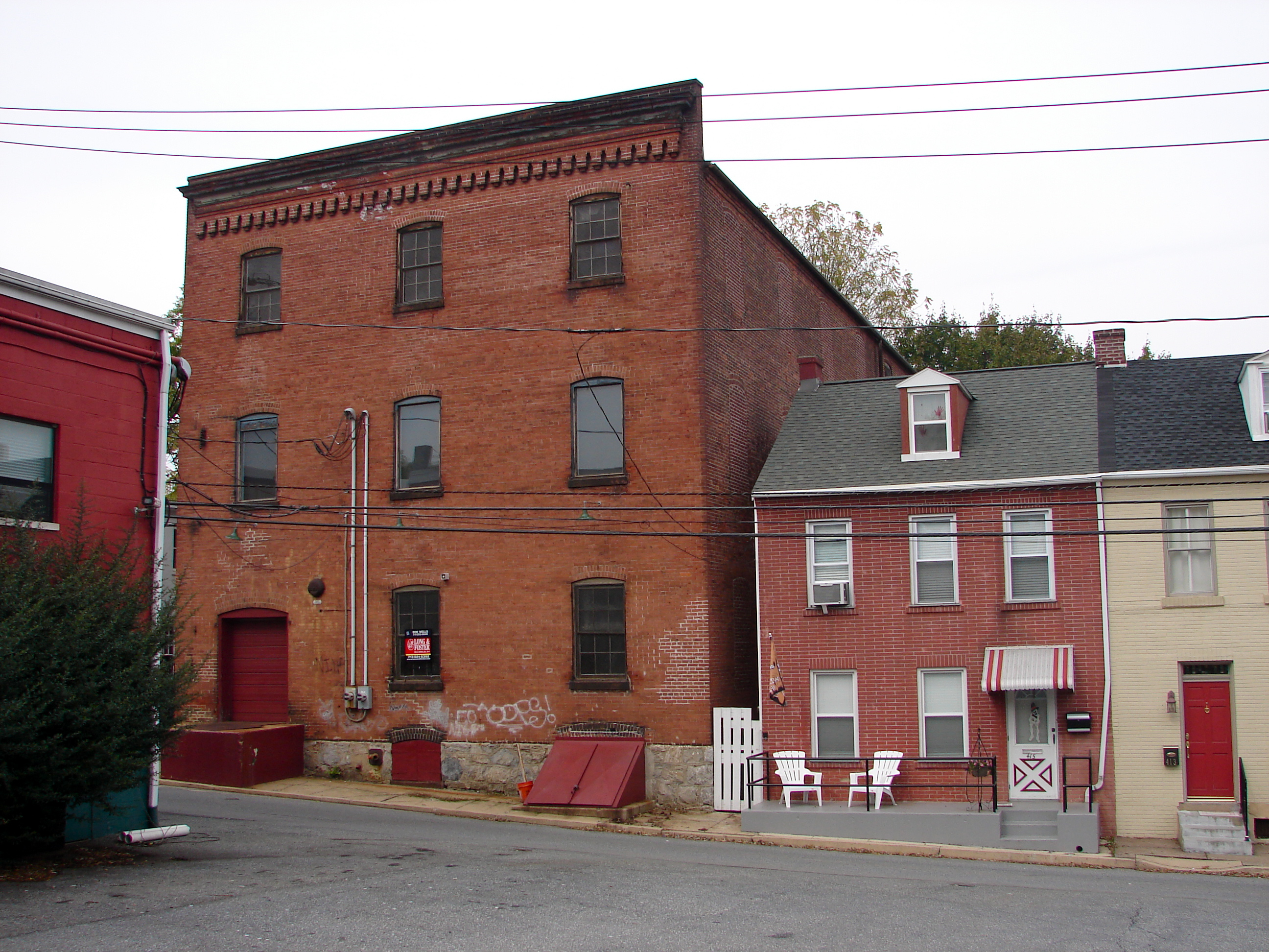 Walter Schnader Tobacco Warehouse on the NRHP since September 21, 1990 - part of the Lancaster Tobacco Warehouse Multiple Listing. At 417–419 West Grant Street (pretty much just an alley here) in the Chestnut Hill neighborhood of Lancaster, Pennsylvania. A few doors to the east is another Schnader warehouse, also on the NRHP. Lancaster, near the Conestoga River, gave that name to its "stogies."